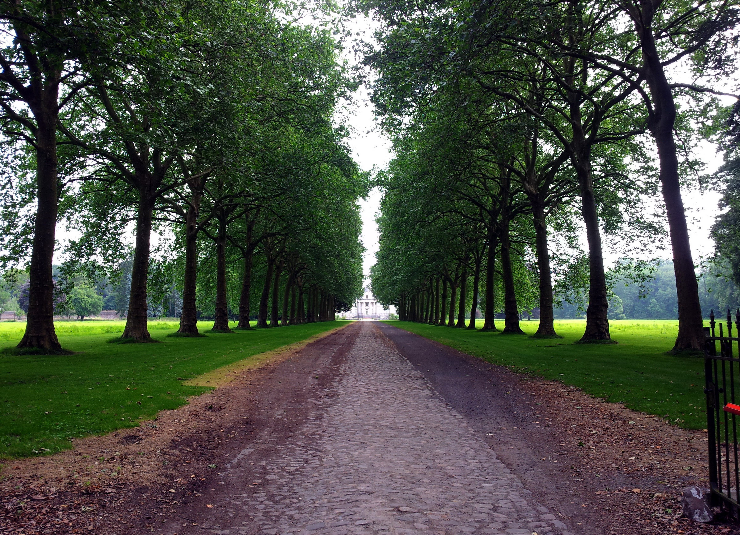 Castle of Duras, Sint-Truiden, Belgium. View of the central driveway leading up to the castle.